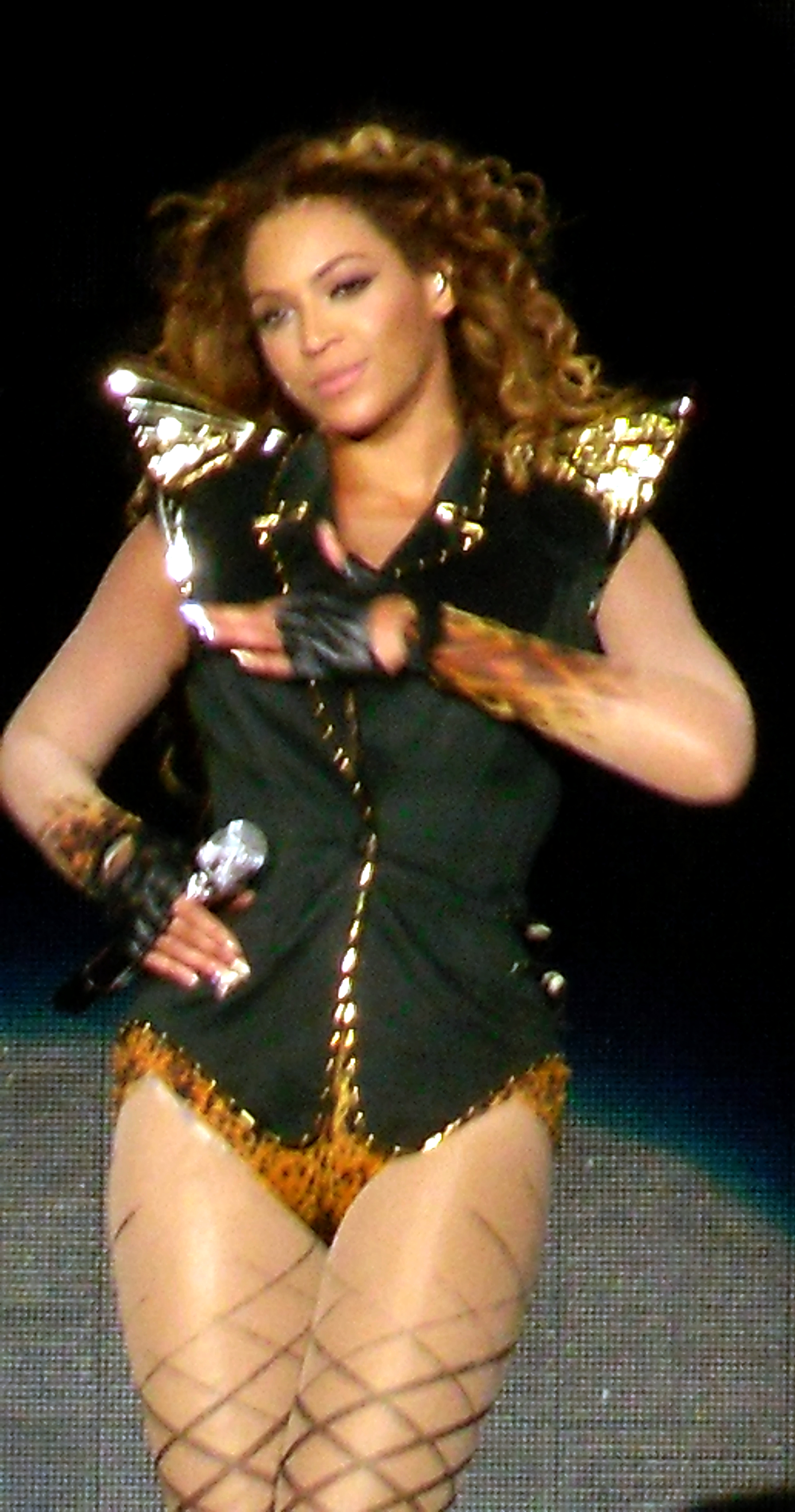 Beyoncé performing in her "I Am... Tour" in Manchester.